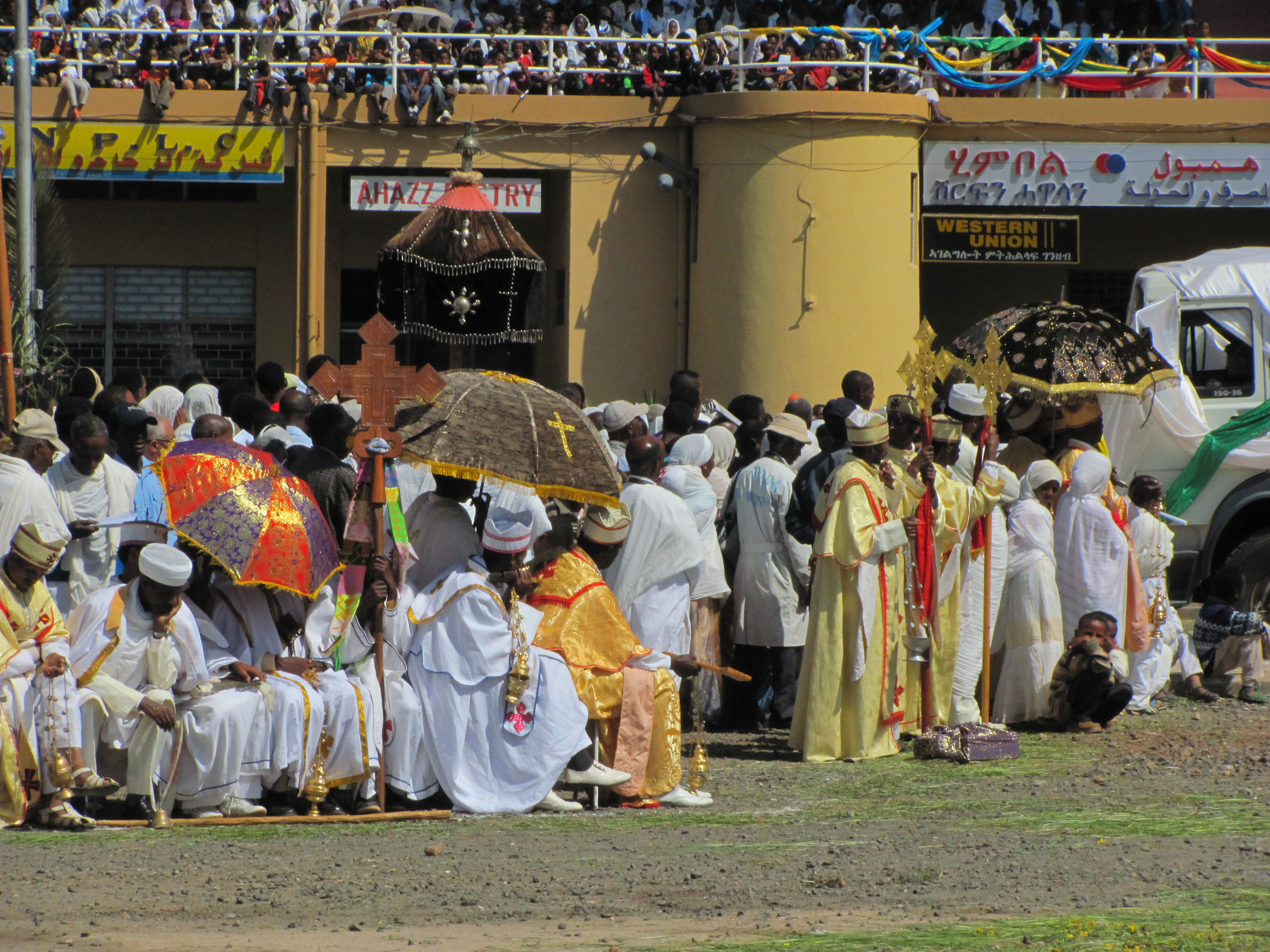 True cross festival Asmara